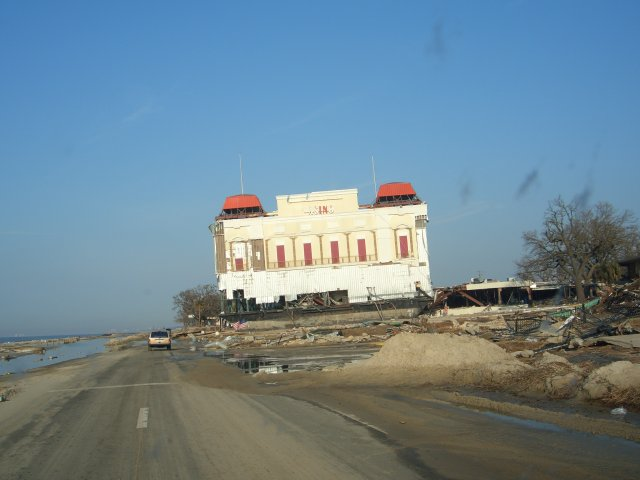 Photo taken by me short after Hurrican Katrina. Photo is of the President Casino Barge after it was washed ashore. I release this photo to the public domain and reserve no rights.